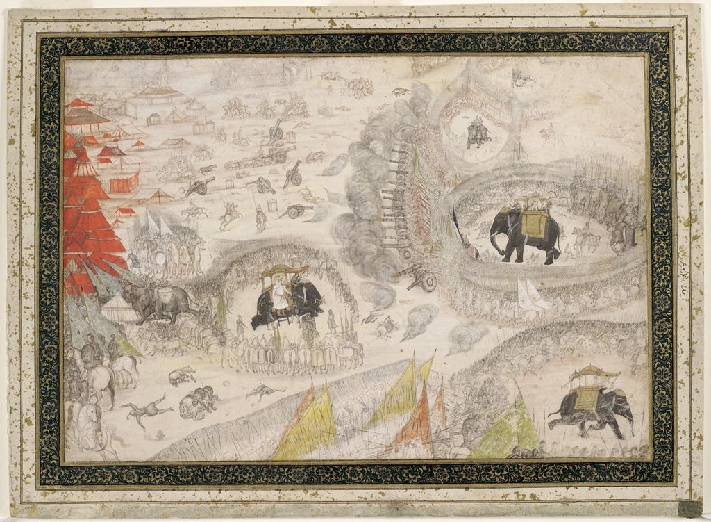 Attributed to Payag Indian (active mid-17th century) The Battle of Samugarh, c. 1658 Painting Mughal , 17th century Mughal period, 932-1274/1526-1858 Creation Place: India Gray-black ink, opaque watercolor, gold and metallic silver paint over white wash on off-white paper Sheet: 28.5 x 38.5 cm (11 1/4 x 15 3/16 in.) Harvard Art Museums/Arthur M. Sackler Museum, Gift of Stuart Cary Welch, Jr. , 1999.298 Department of Islamic & Later Indian Art , Division of Asian and Mediterranean Art